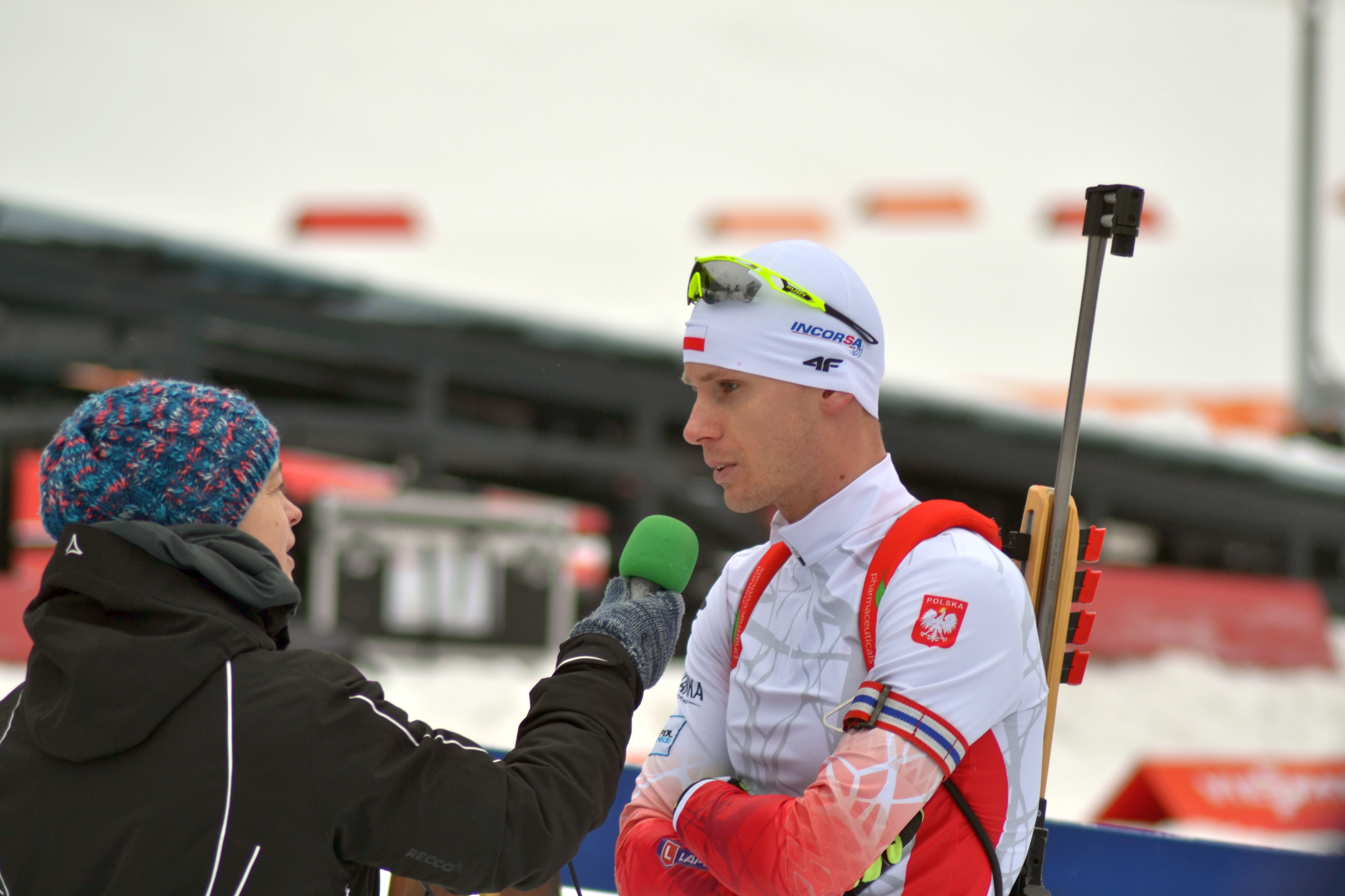 Open European Championships Biathlon 2017, Individual Men's race, held on January 25th.